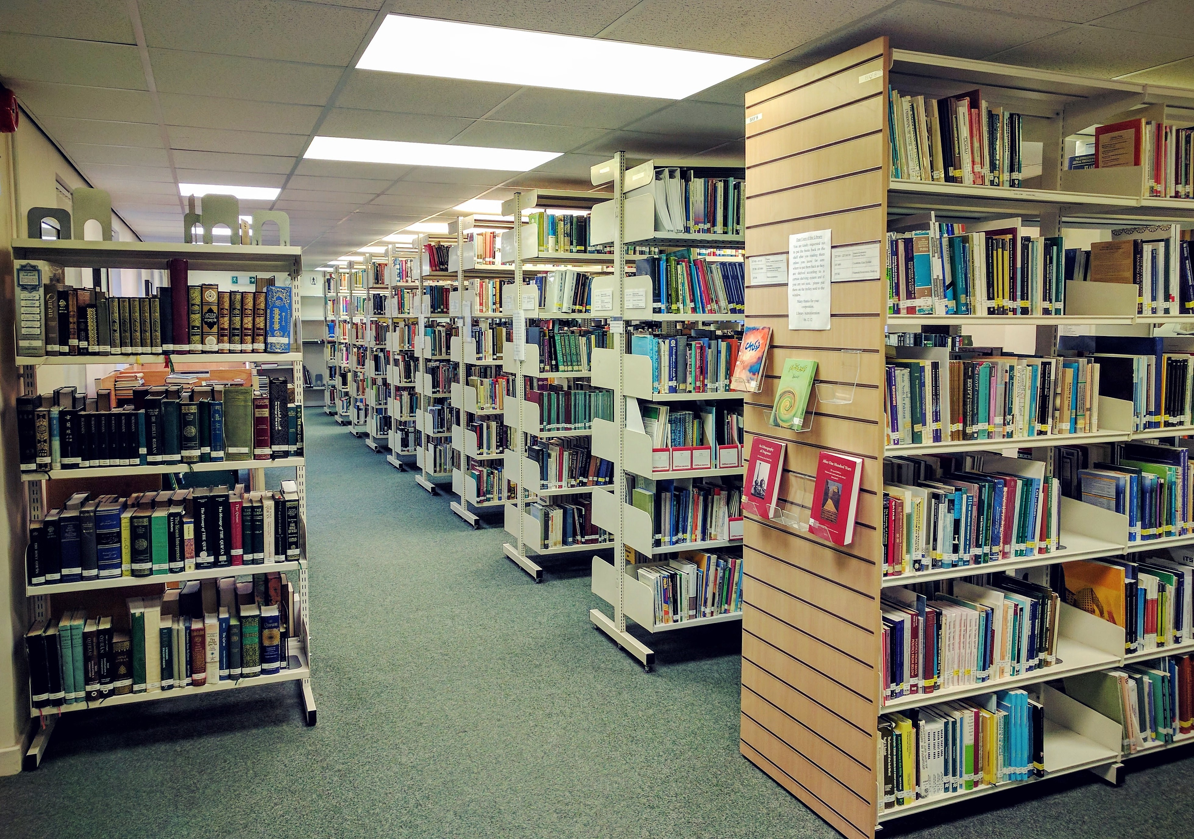 Library stacks from the ground floor of the Markfield Institute library